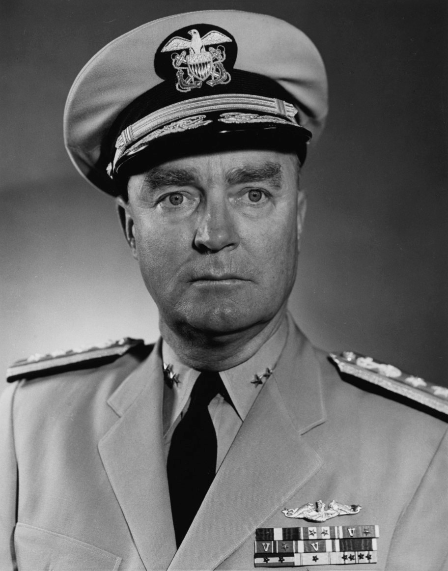 Black and white official portrait of Rear Admiral Norvell G. Ward, USN. USN Catalog #1096857